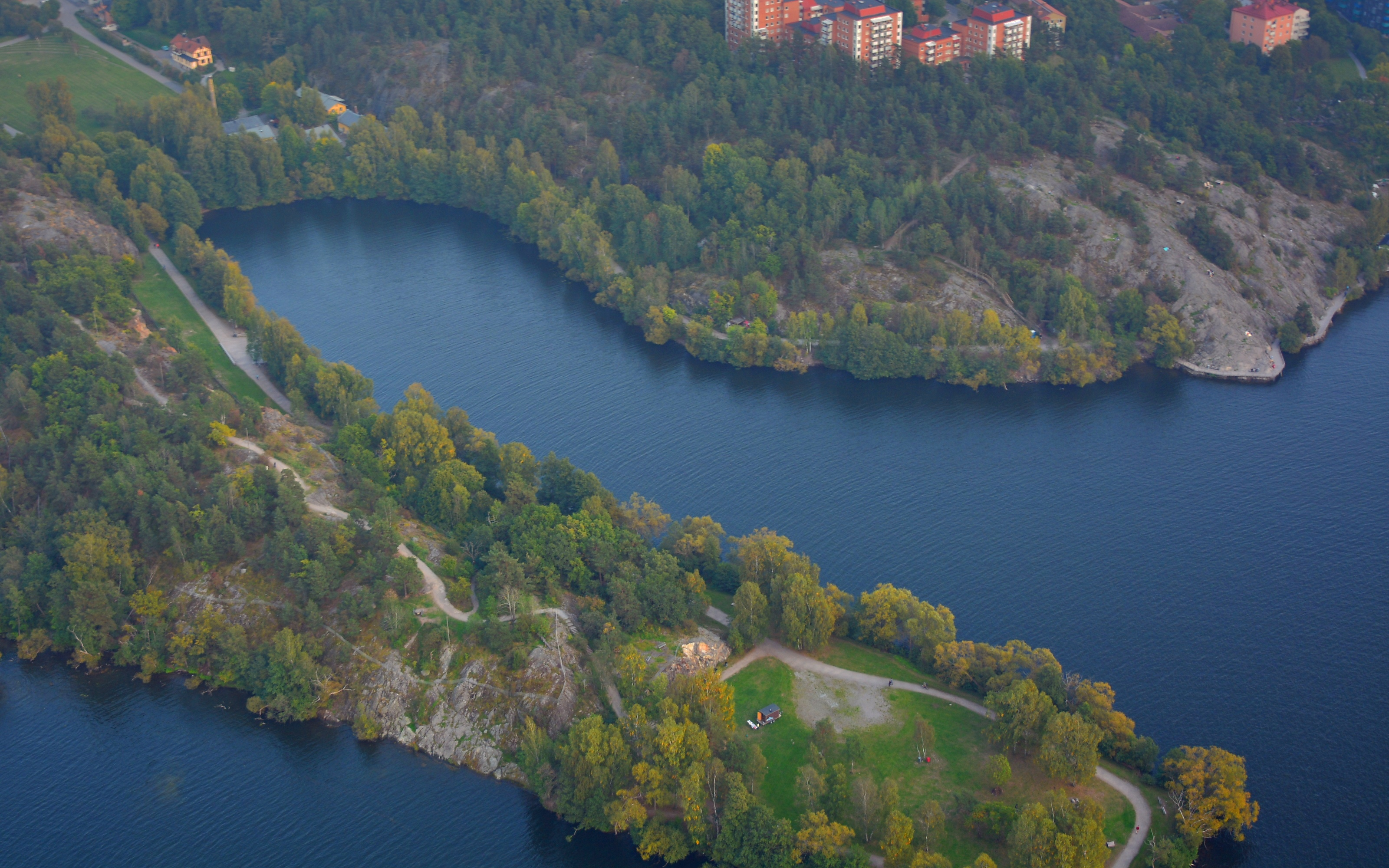 Vinterviken in Aspudden, Stockholm, Sweden.